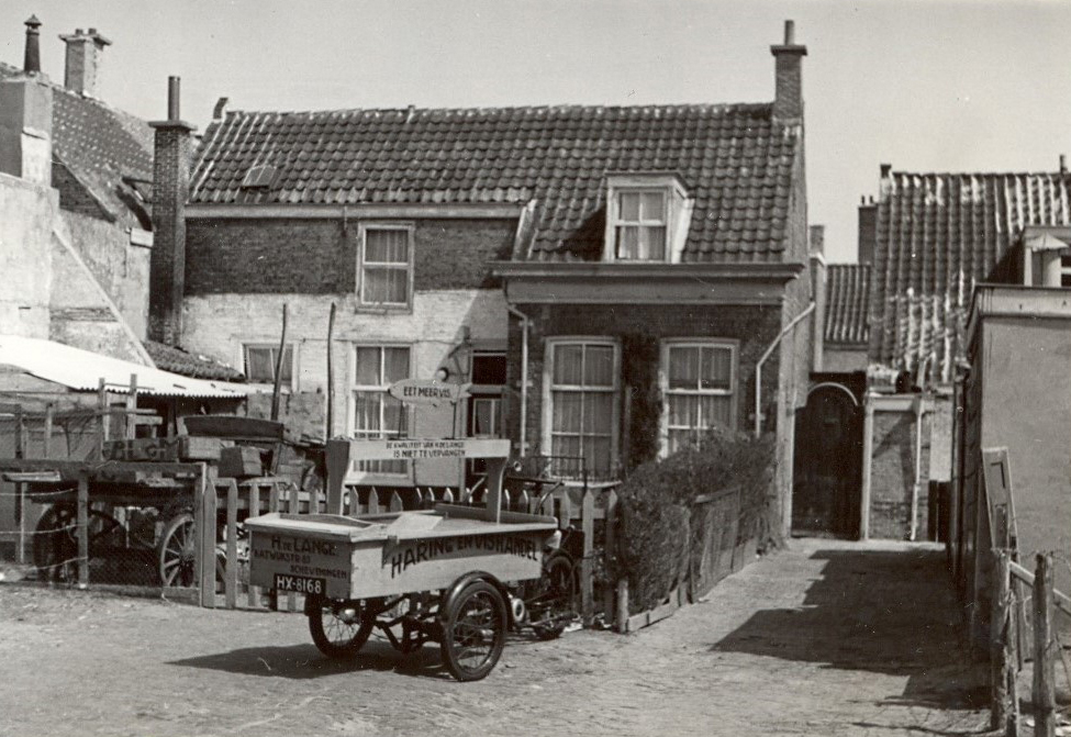 This is the central house in the Hofje van de Lange and shows his fish cart in the foreground